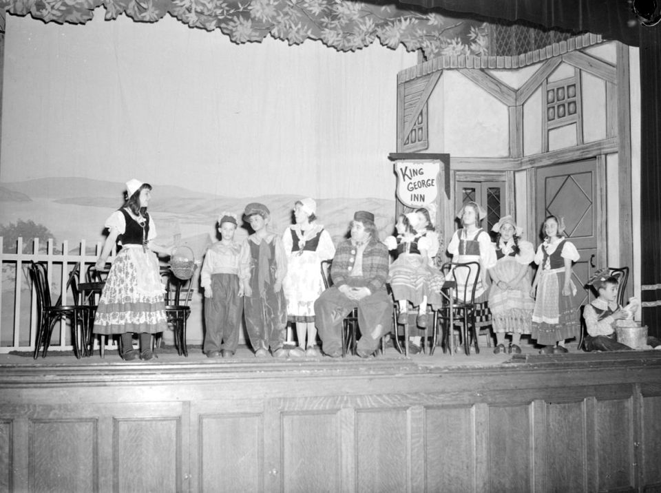 We see actors from the theater company of the Compagnons de Saint-Laurent during a theatrical performance.